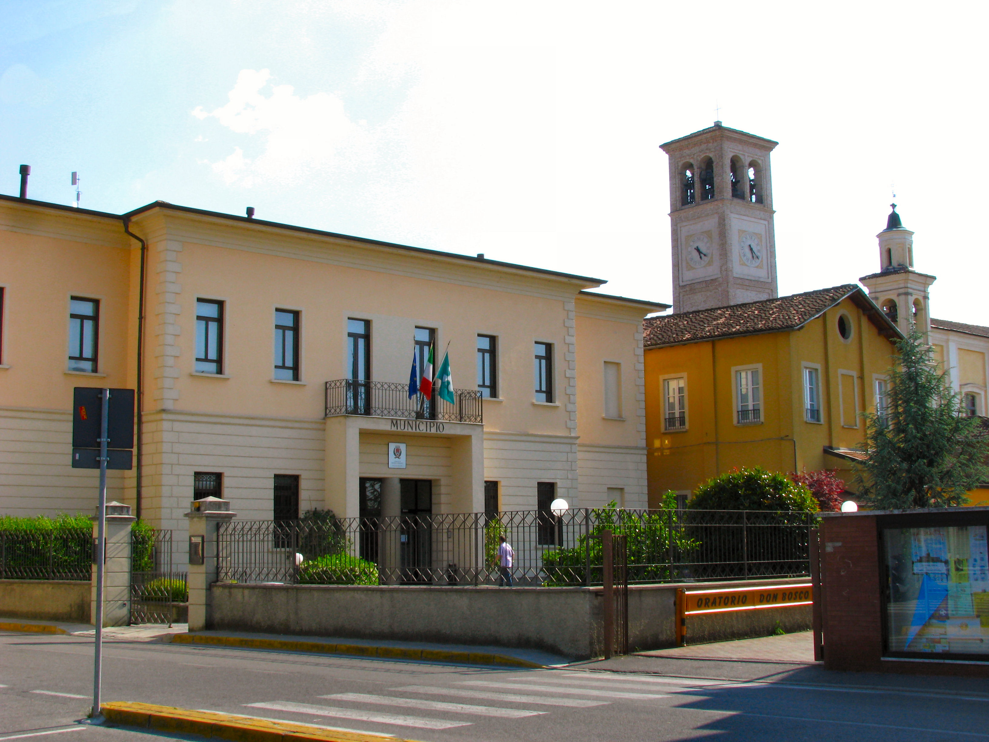 Bagnolo Cremasco - Town Hall